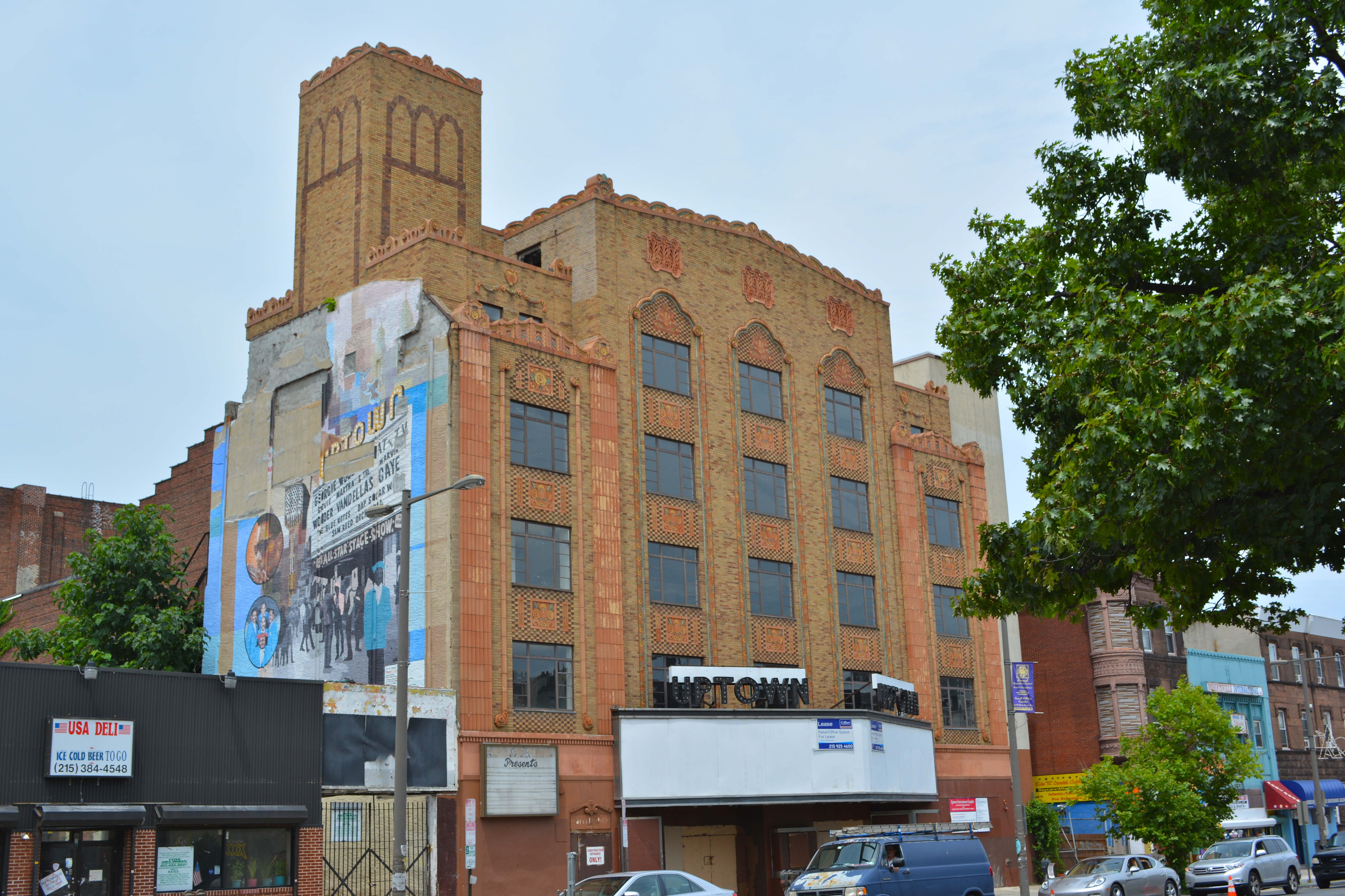 Uptown Theater and Office Building listed on the NRHP on July 22, 1982 (#82003817).Located at 2240–2248 North Broad St. in the Templetown neighborhood of north Philadelphia. Magaziner, Eberhard & Harris, architects (1929).